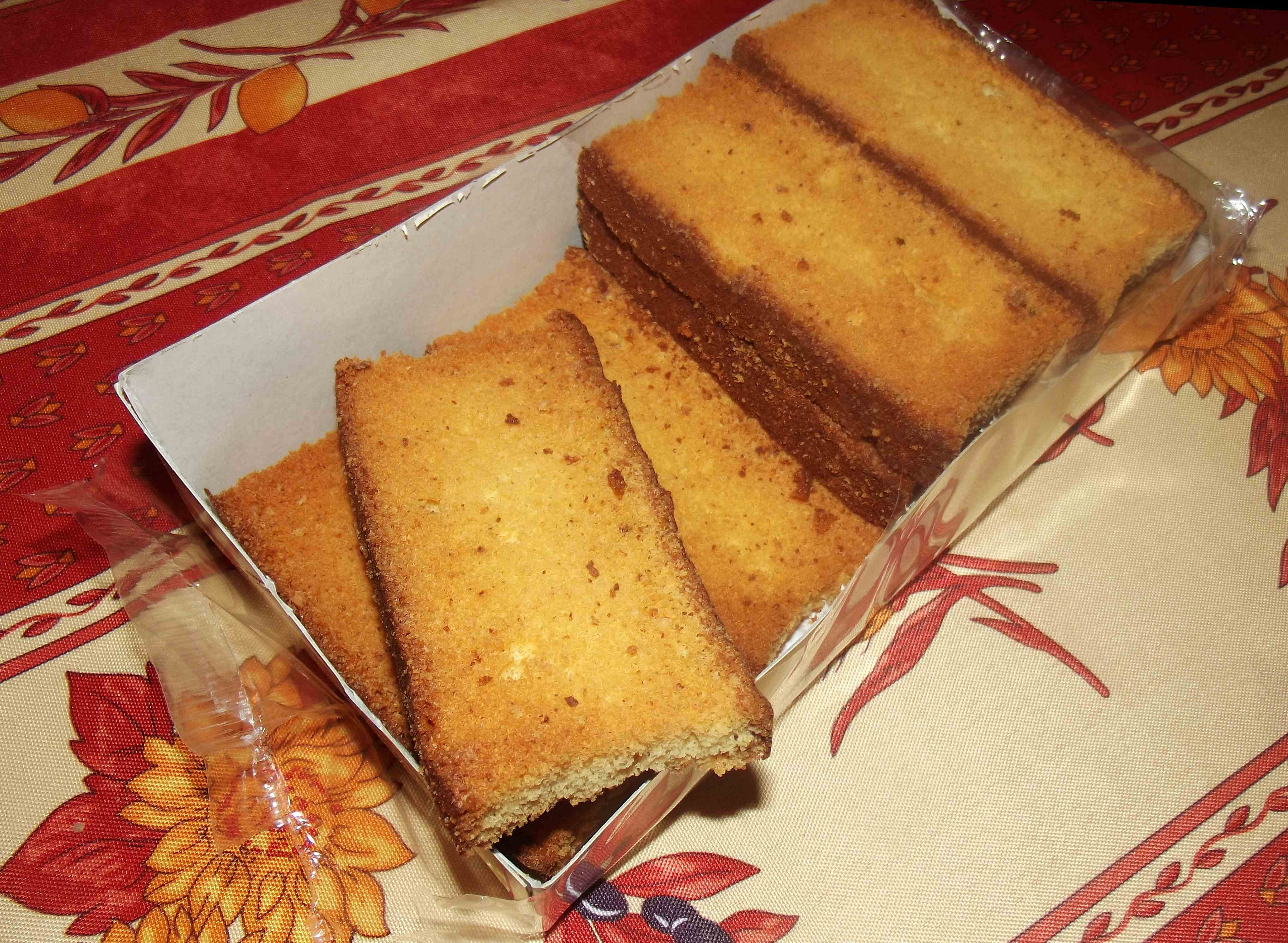 Packed finocchini (traditional Piedmontese bisquit)